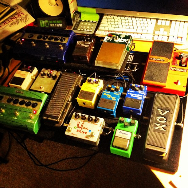 Rewired the pedal board tonight. There will be noise! 6 Likes on Instagram 2 Comments on Instagram: evansfield: Yessss tehrubendc: So awesome.